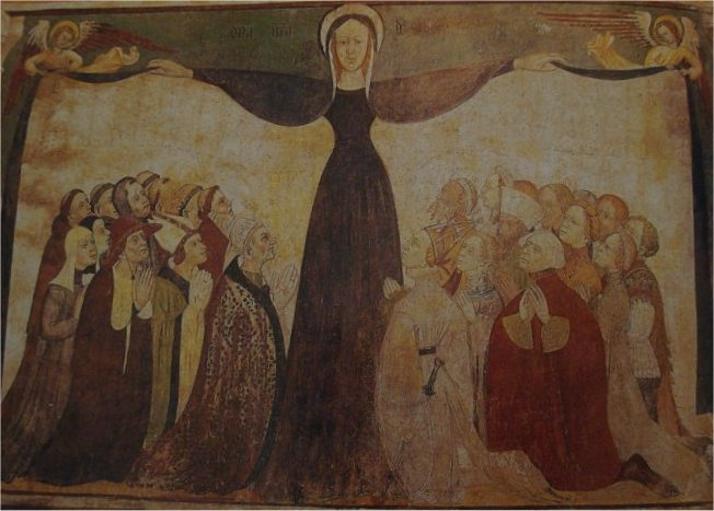 Painting of Mary from Fénis castle in Aosta Valley. Probably by painter Giacomo Jaquerio or his apprentices